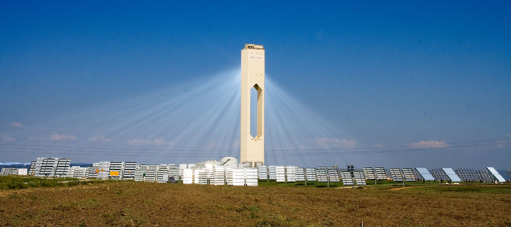 Solucar PS10 is the first solar thermal power plant based on tower in the world that generates electricity in a commercial way.